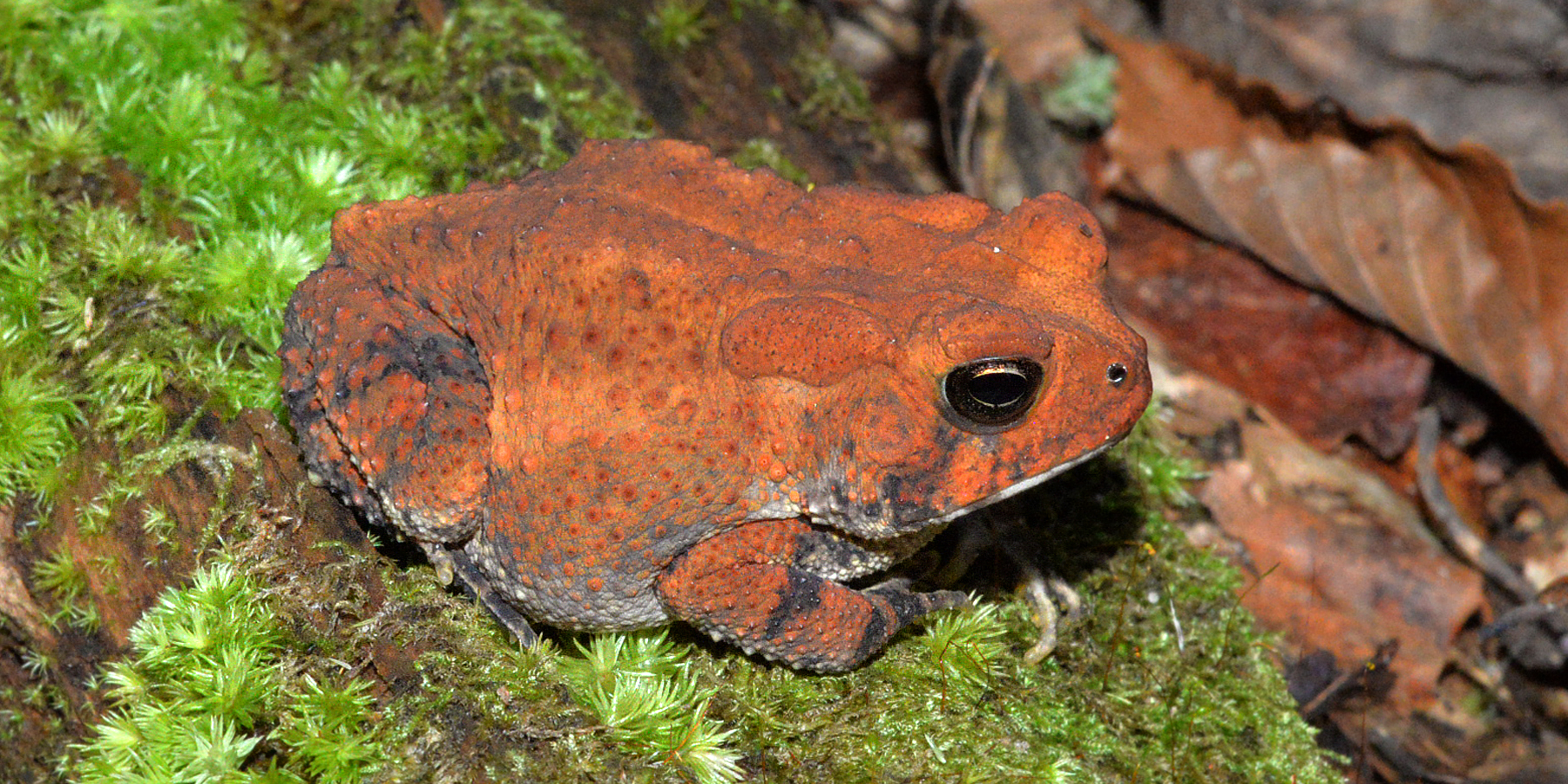 Amphibia: Anura; Bufonidae; Anaxyrus velatus or woodhousii x fowler photographed in Hardin Co. Texas, USA.